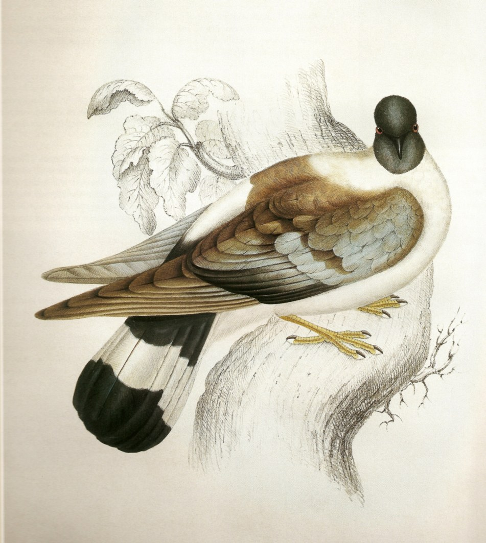 Snow Pigeon Columba leuconota (Vigors)